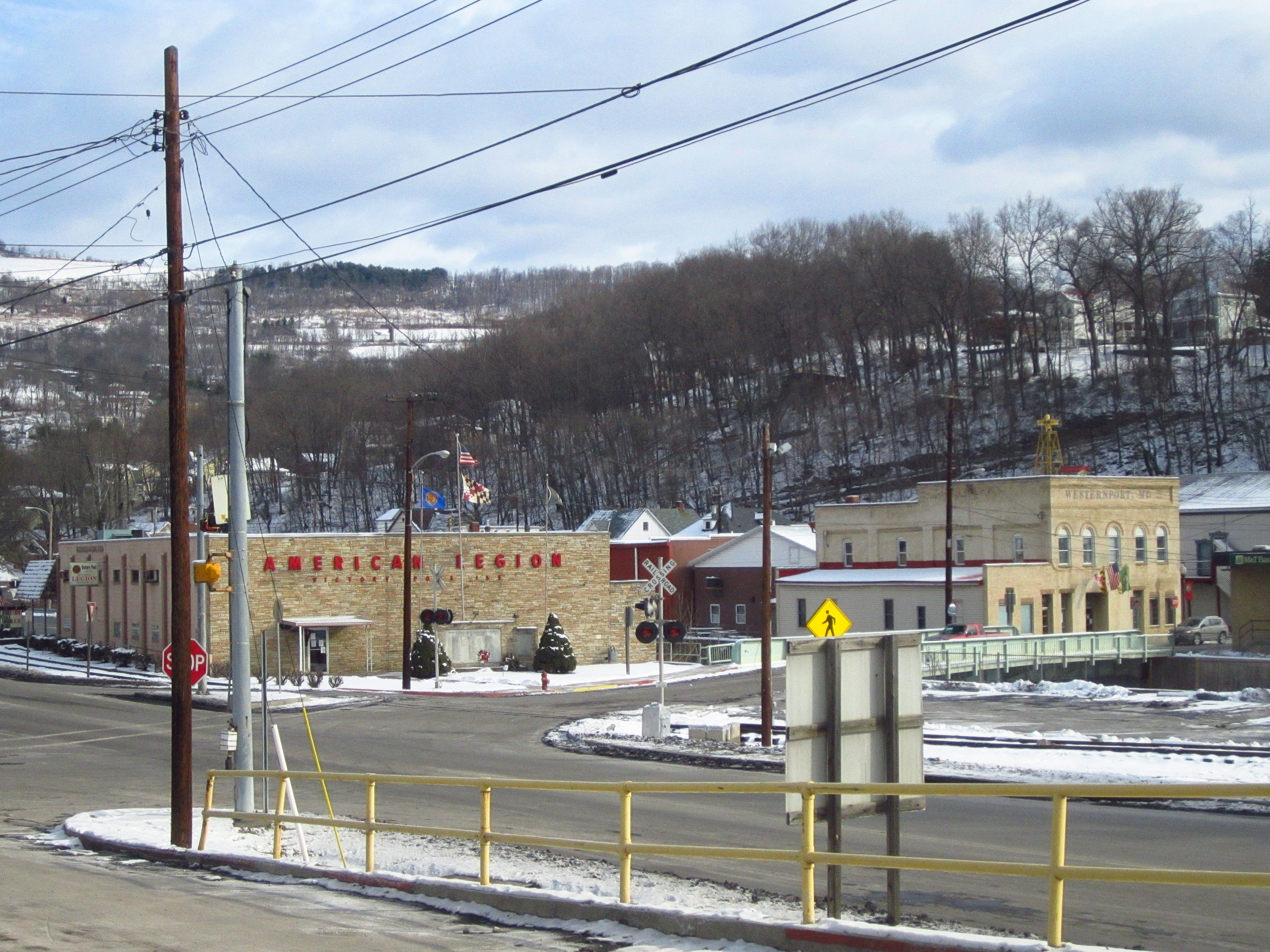 American Legion building - downtown Westport, Maryland